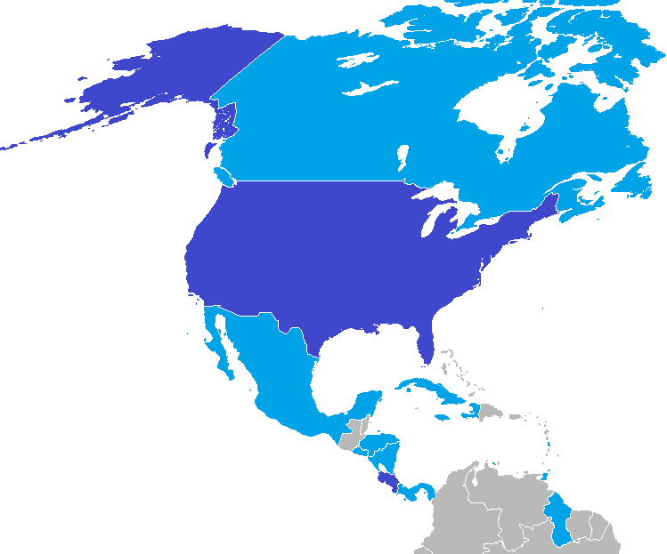 Map of the countries classified to the Concacaf Gold Cup 2019.